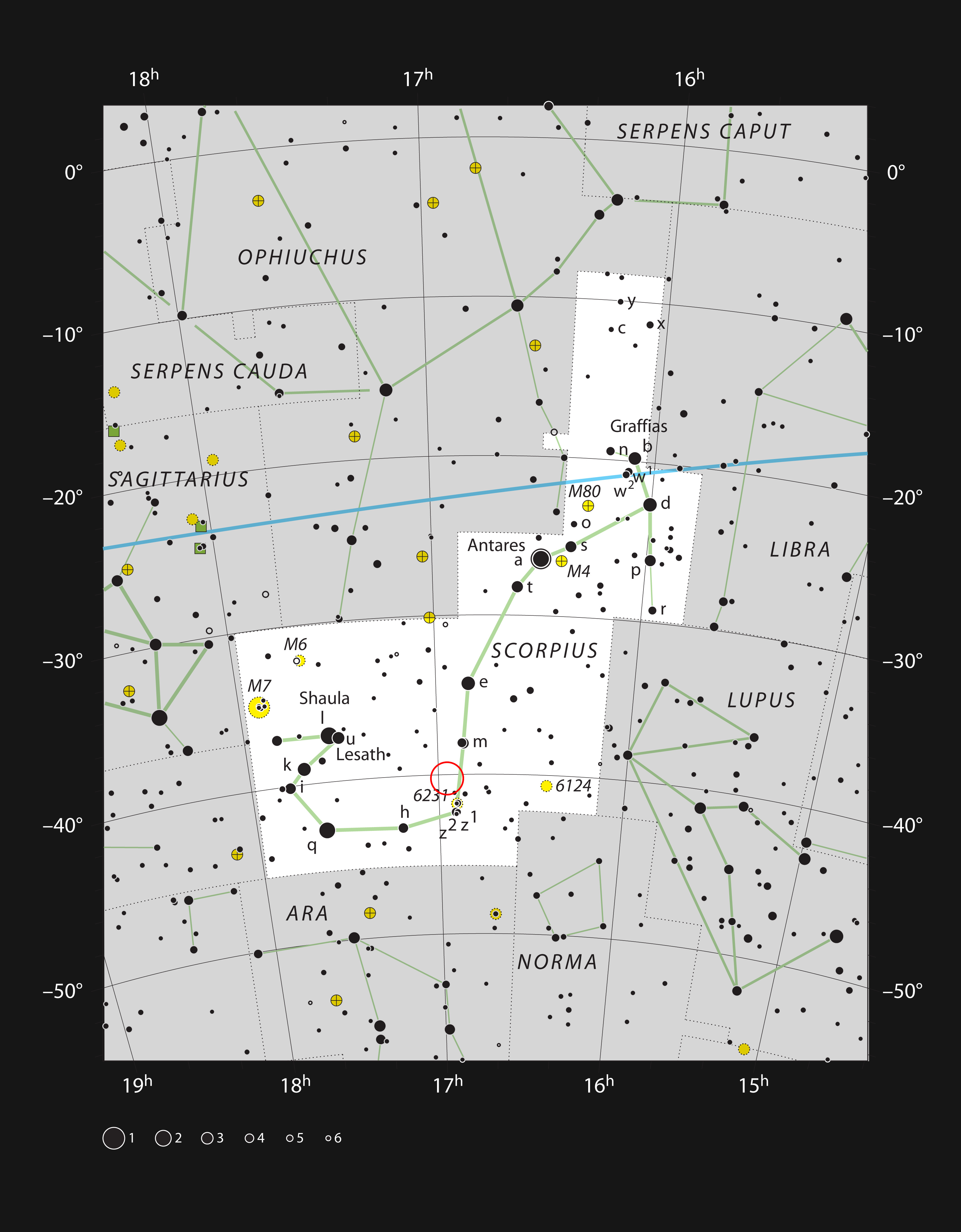 This chart shows the prominent constellation of Scorpius (The Scorpion). Most of the stars that can be seen in a dark sky with the unaided eye are marked. The location of the star formation region called the Prawn Nebula (IC 4628) is indicated with a red circle. This cloud appears large but is very faint and cannot be seen visually with a small telescope.